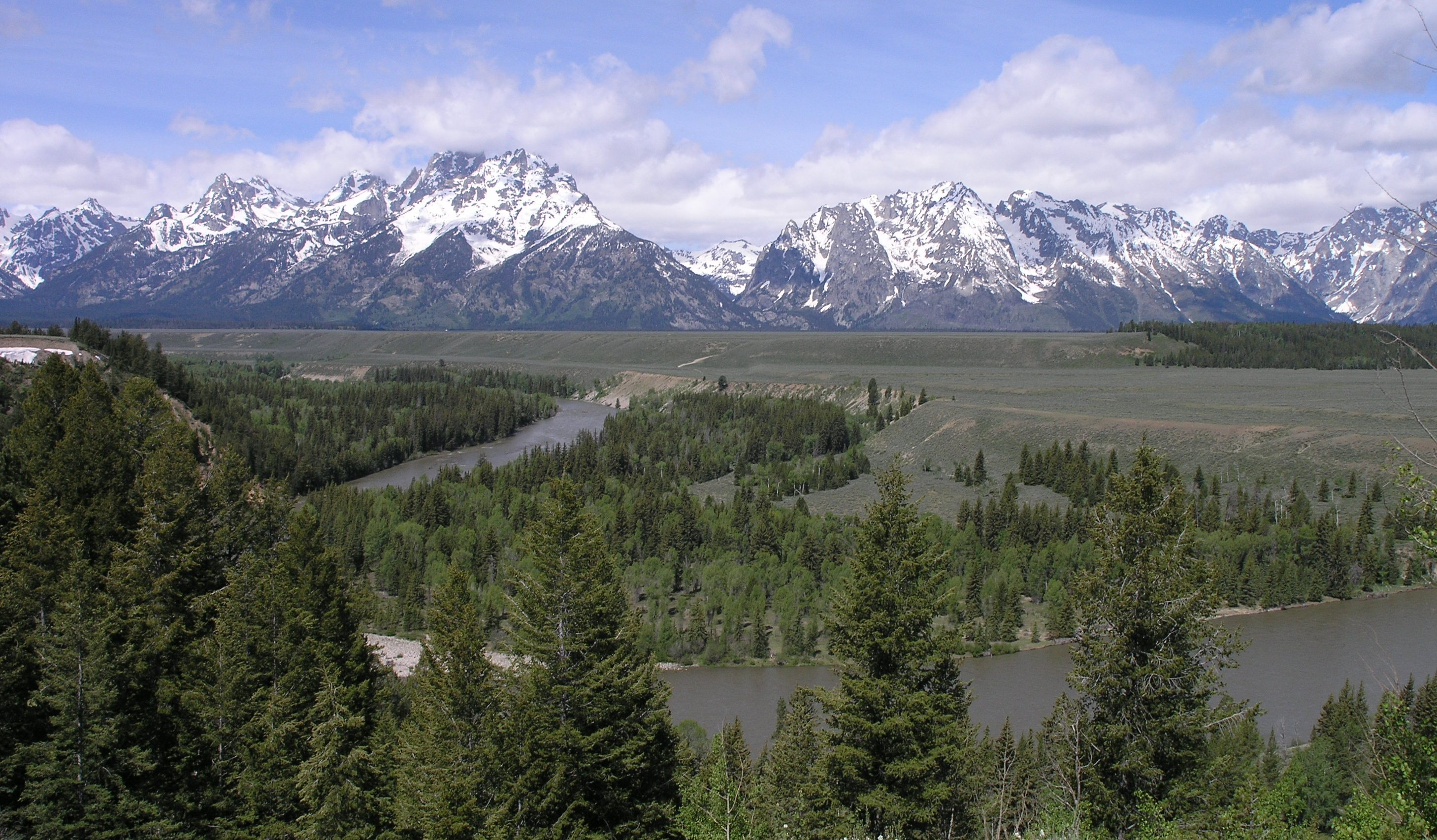 Photo in or around Grand Teton National Park